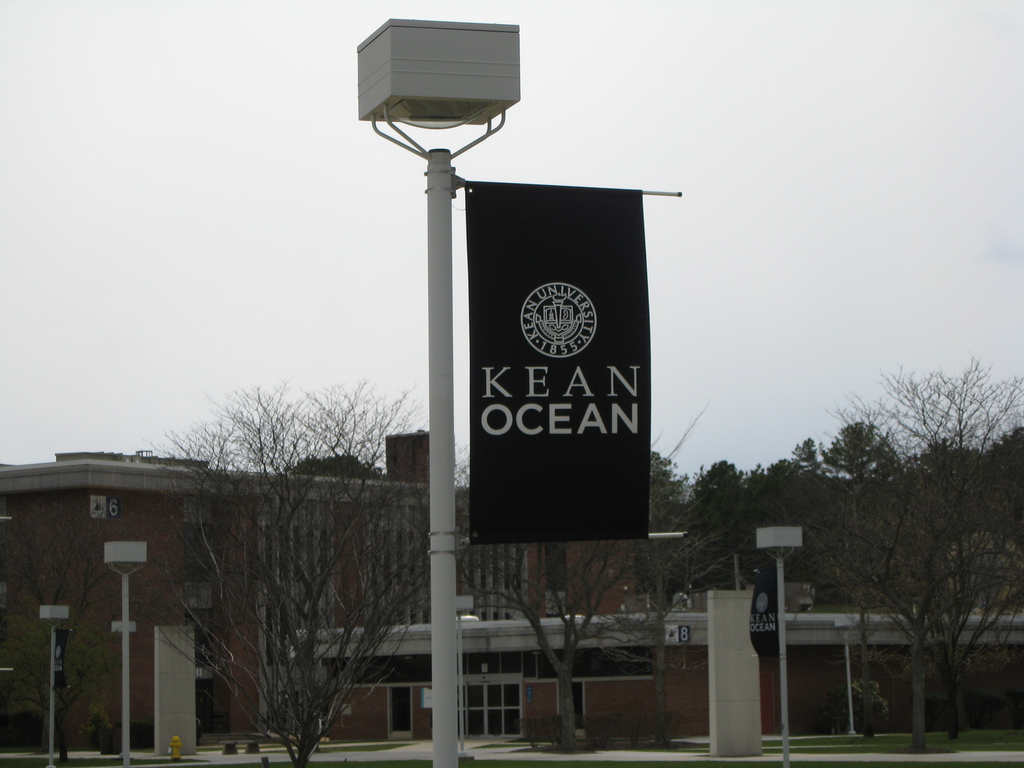 Banners for the Kean at Ocean programs are prominent throughout the campus of Ocean County College, in Toms River, New Jersey. Behind this banner is the TV Studio (background center) and an instructional building (background left).